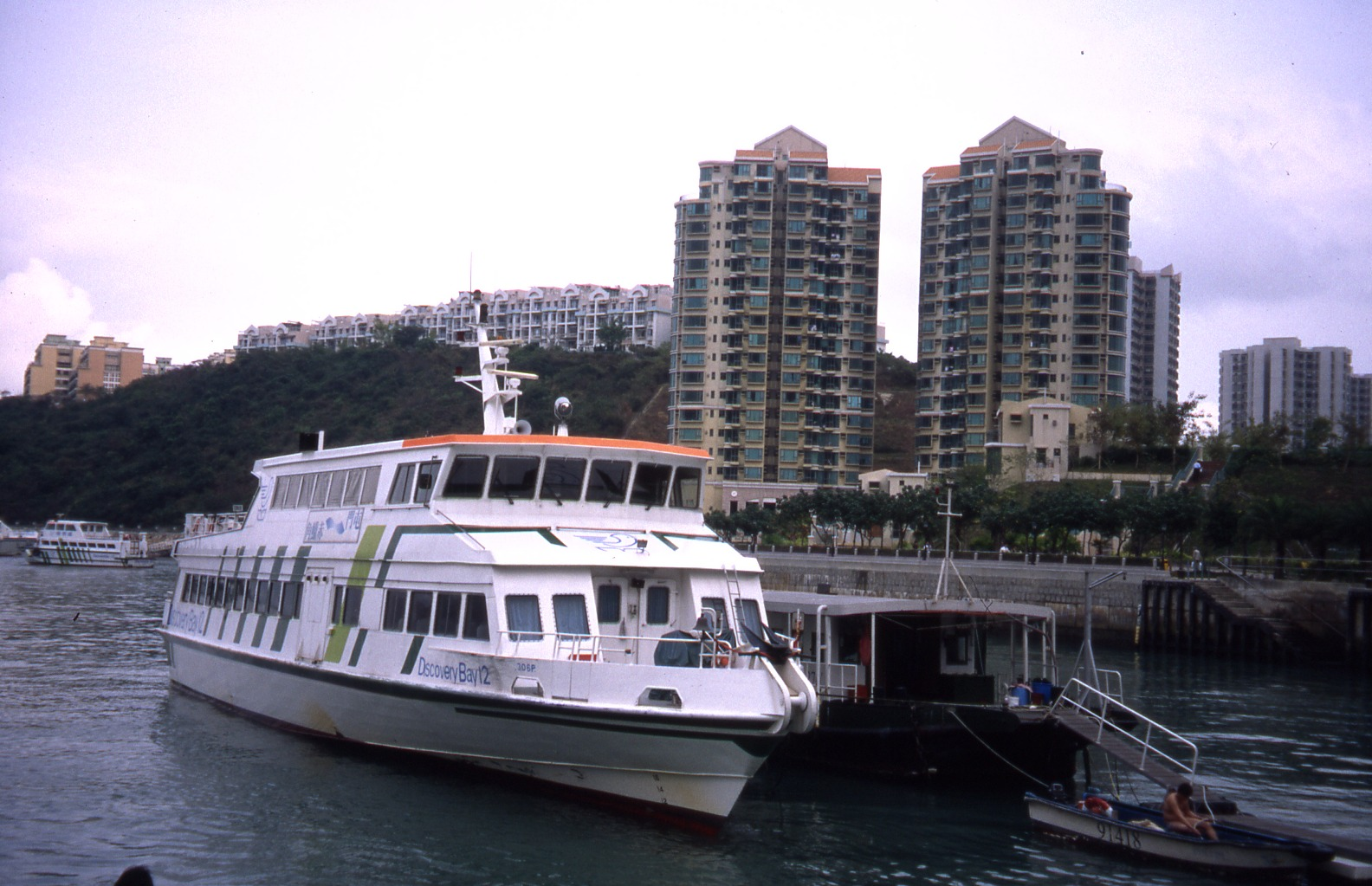 Discovery Bay ferry at Lantau Island, Hong Kong Information about Discovery Bay 12 may be found at IMO 8614455. A ship can change name and flag state through time, but the IMO number remains the same through the hull's entire lifetime. As a result, it can be useful to identify a ship by using the IMO number.